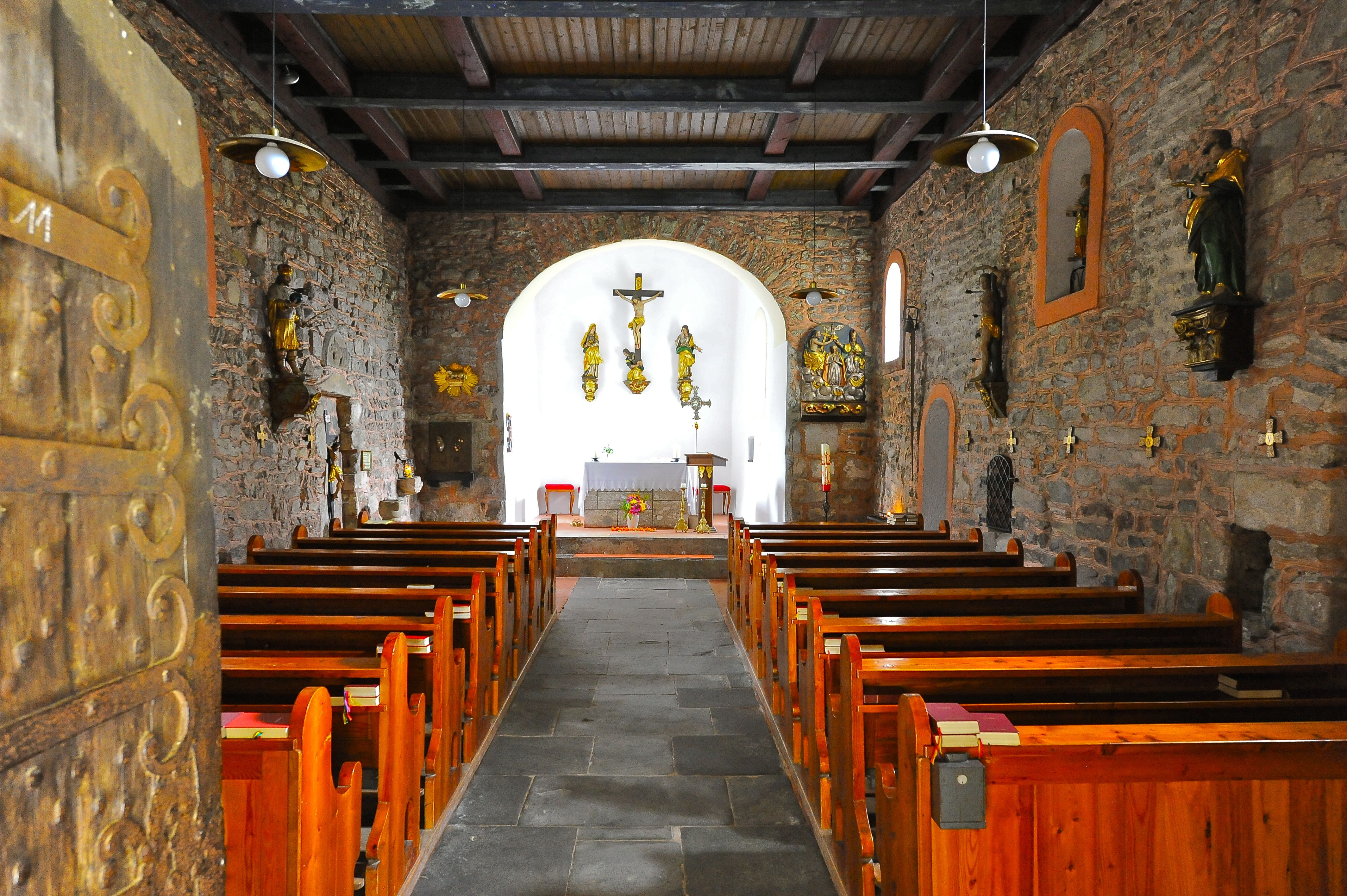 Interior of the parish church at Karnburg in the community of Maria Saal in the district Klagenfurt Land, Carinthia, Austria